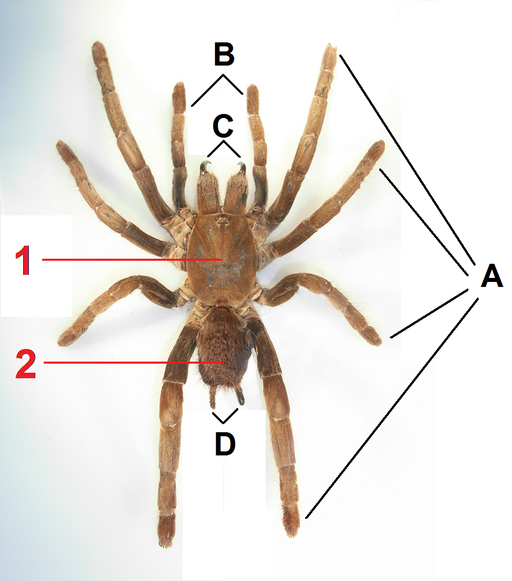 Hysterocrates hercules Female Ex coll. Felix Stumpe